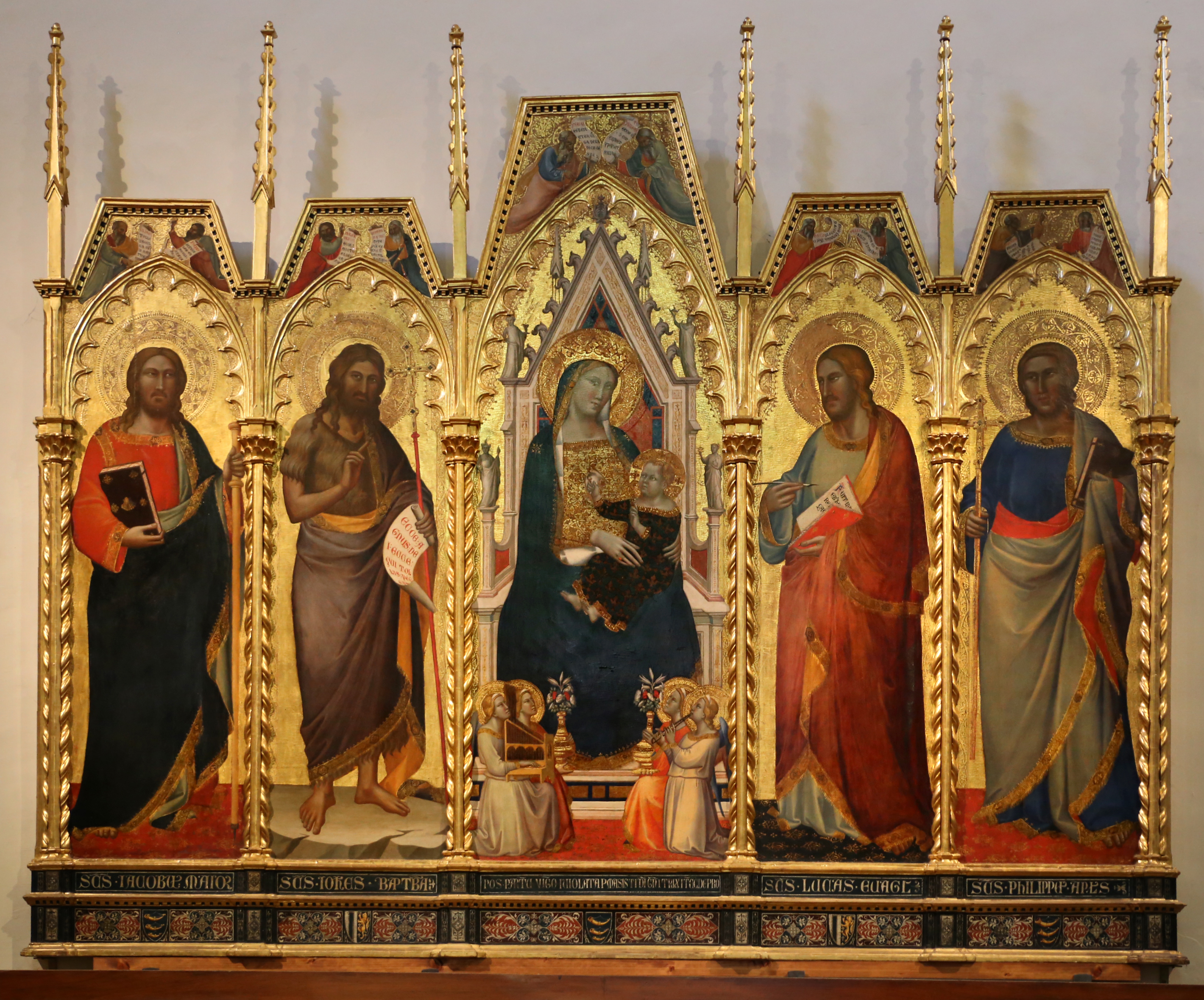 Santa Felicita (Florence) - Interior